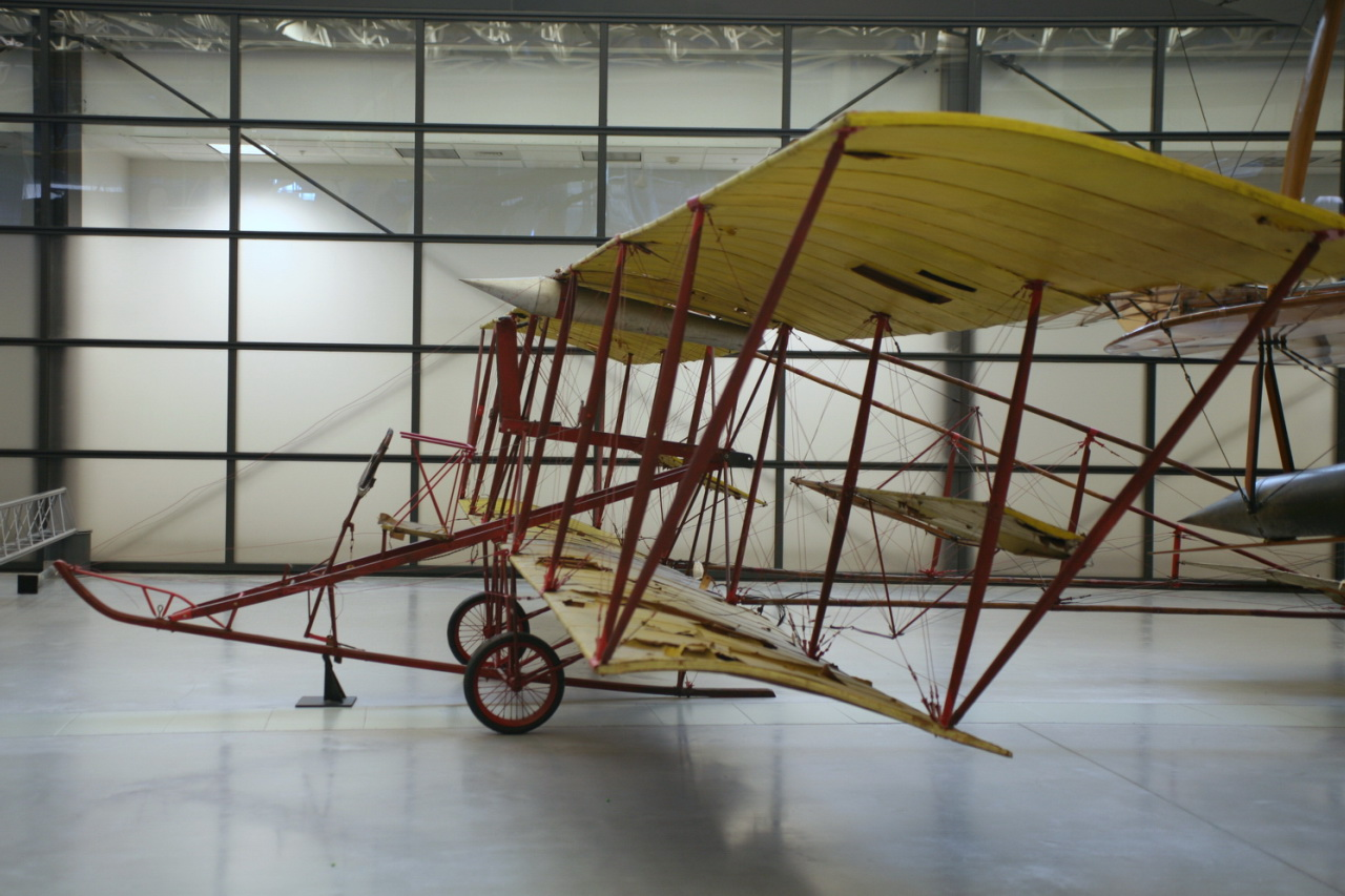 After making a reputation with lighter-than-air craft, Thomas Scott Baldwin turned to heavier-than-air flying machines in 1909. By 1911 he had built several airplanes and had gained extensive experience as an exhibition pilot. He began testing a new airplane in the spring of 1911. It was similar to the basic Curtiss pusher design that was becoming quite popular with builders by this time, but it was innovative in that it was constructed of steel tubing. It was powered by a 60-horsepower Hall-Scott V-8. Baldwin called his new machine the Red Devil III, and thereafter each of his airplanes would be known as a Baldwin Red Devil.